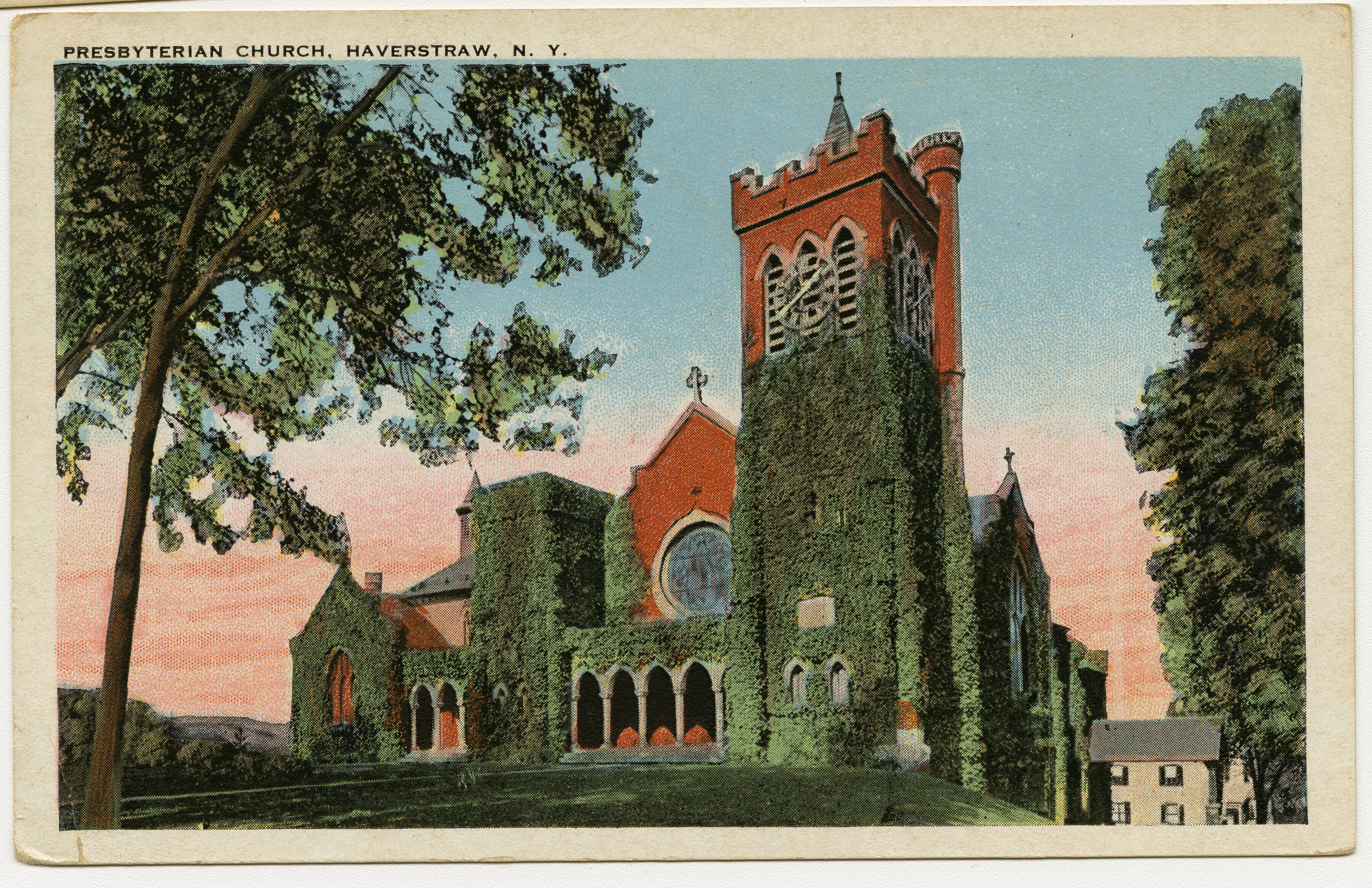 Presbyterian church in Haverstraw, New York from a pre-1923 postcard From RG 428, Postcard Collection, Presbyterian Historical Society, Philadelphia, Pennsylvania.